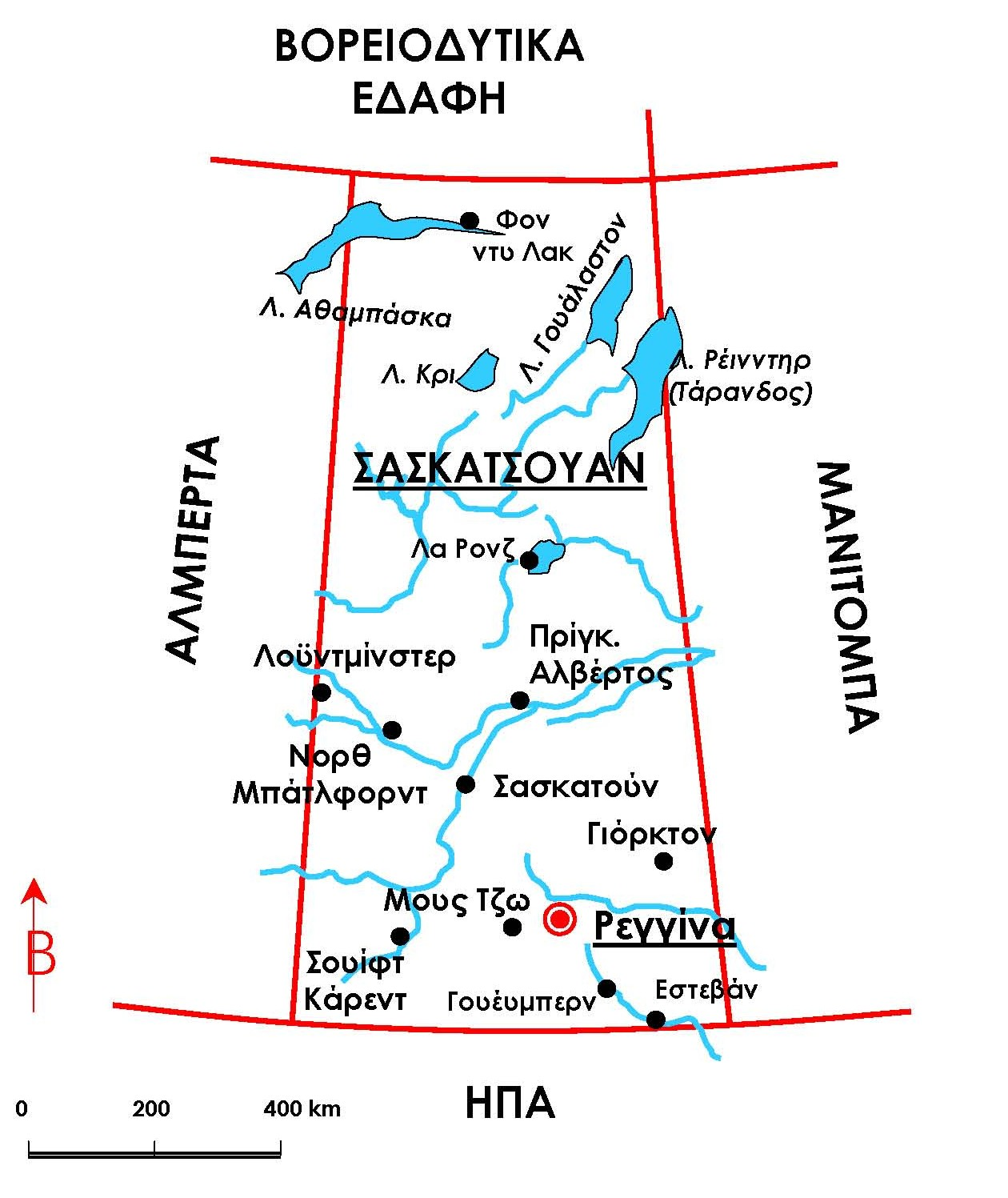 Map of Saskatchewan